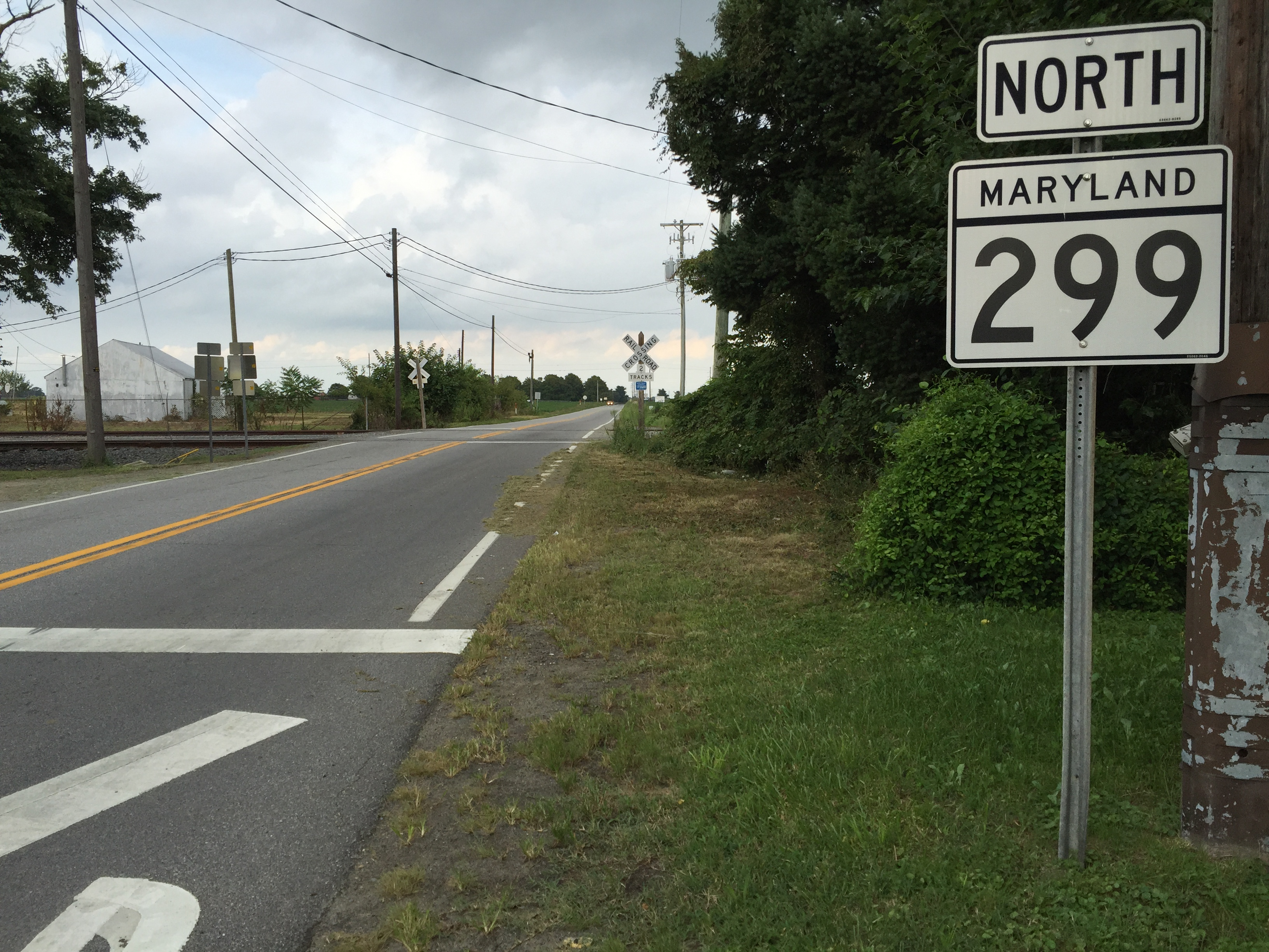 View north along Maryland State Route 299 (Massey Road) at Maryland State Route 313 (Galena Road) and Maryland State Route 330 (Maryland Line Road) in Massey, Kent County, Maryland